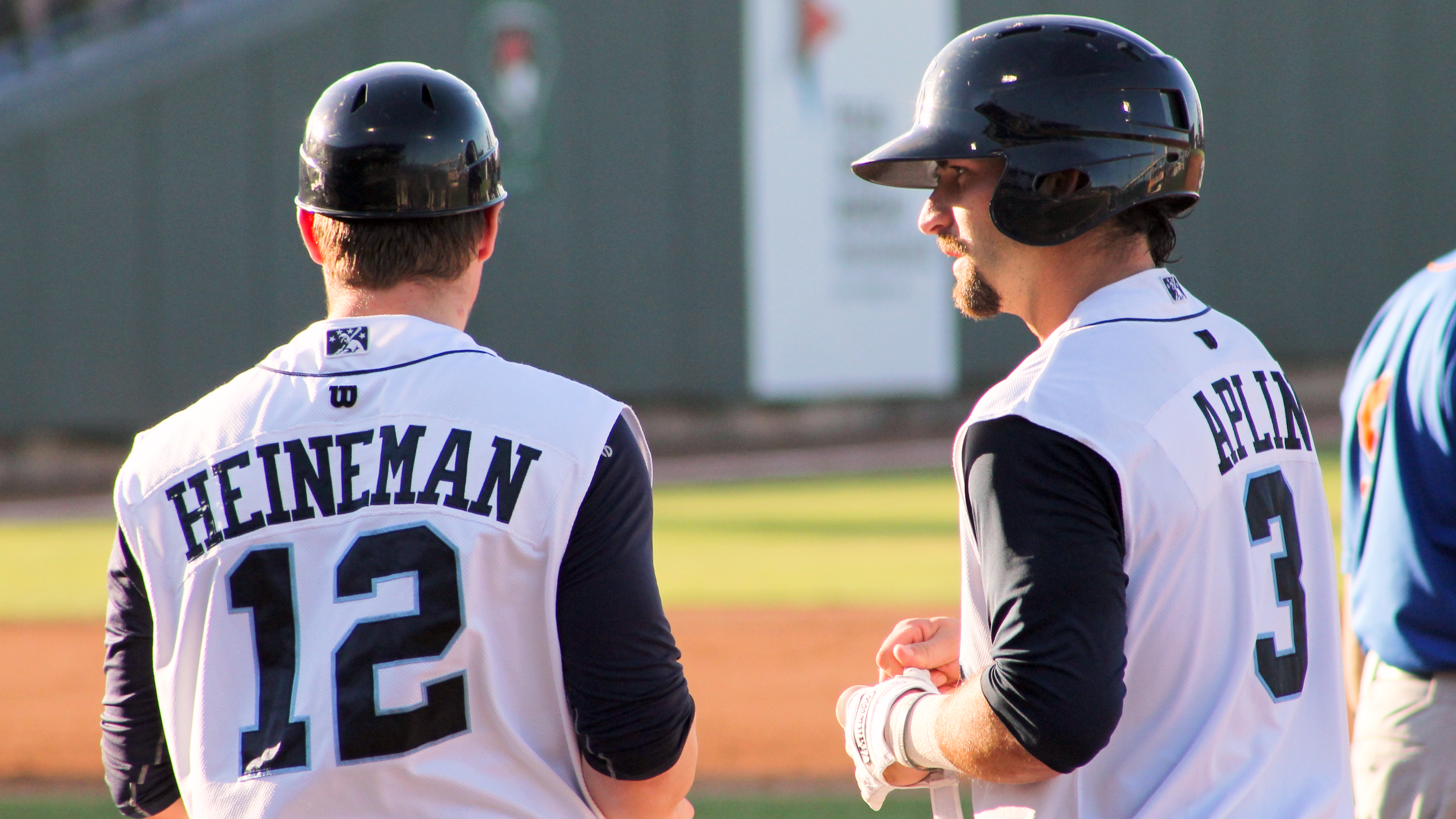 Minor league baseball players Andrew Aplin and Tyler Heineman during a game in Corpus Christi in 2014